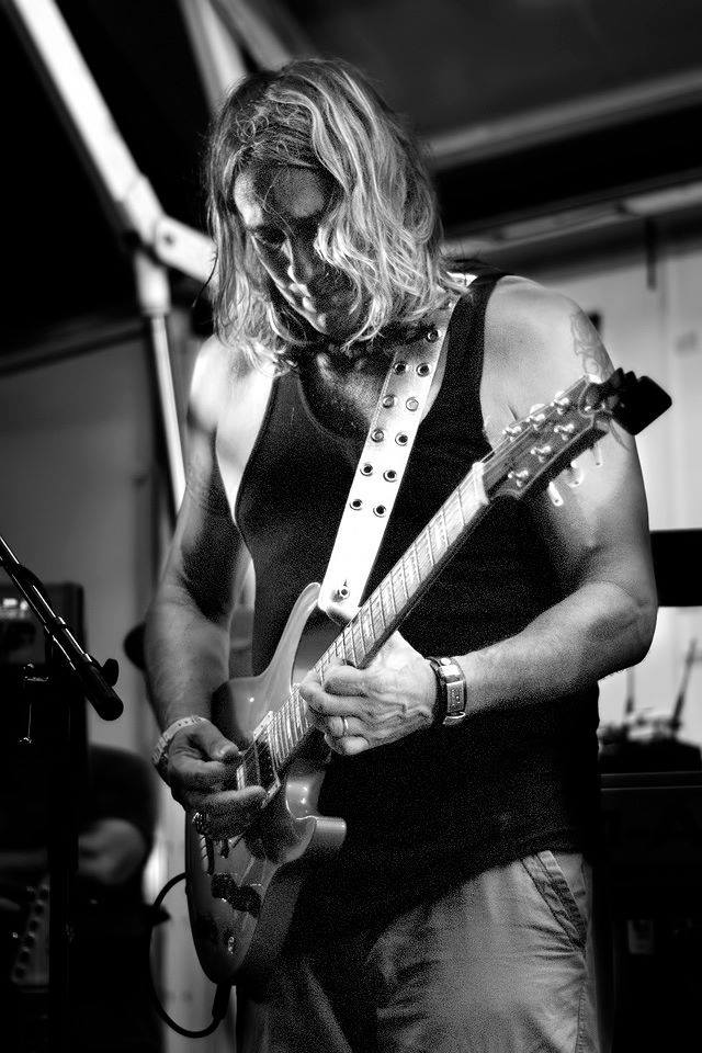 Musician and Author John McCarthy